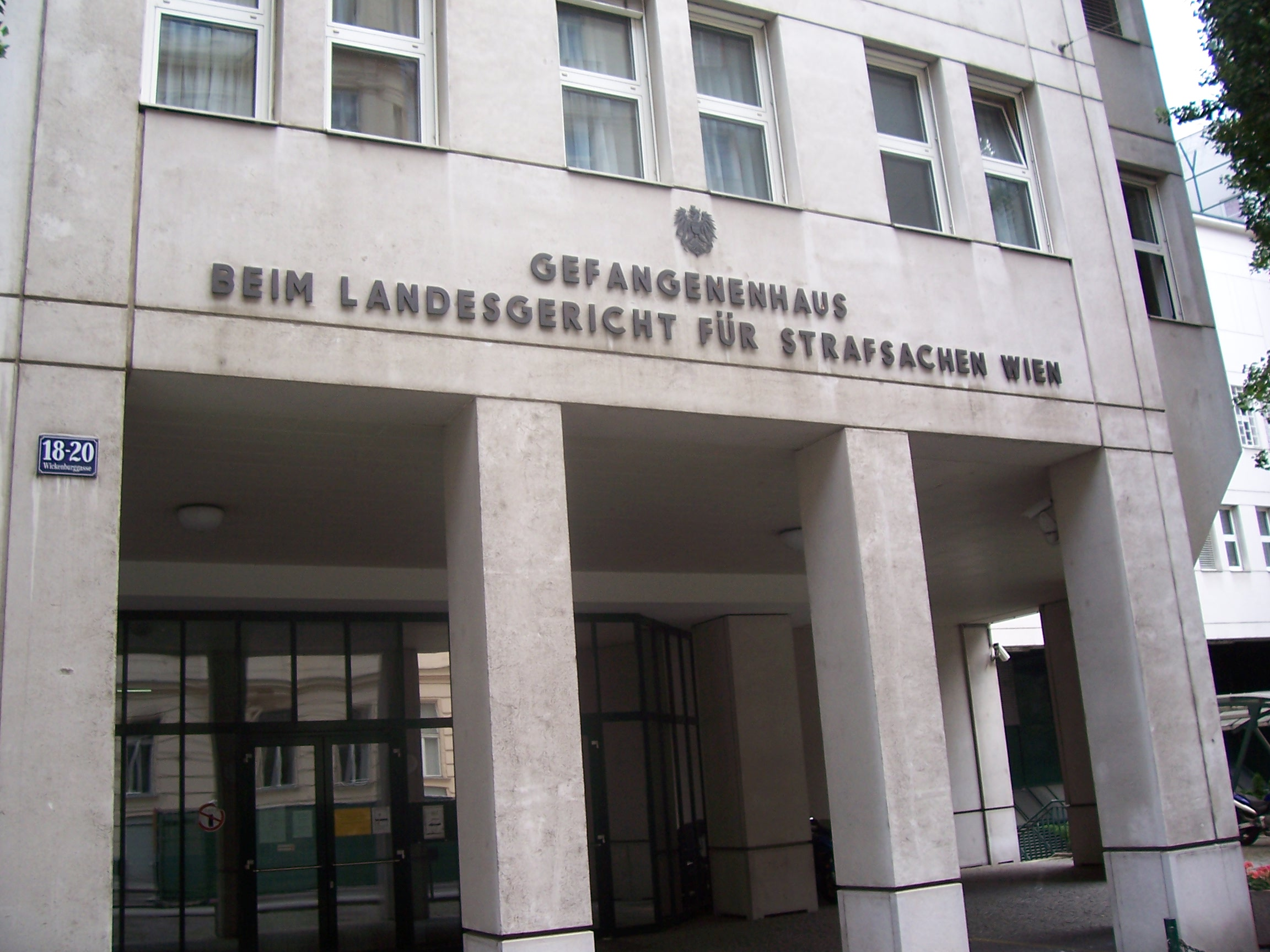 The entrance area of the Josefstadt penitentiary in Vienna.